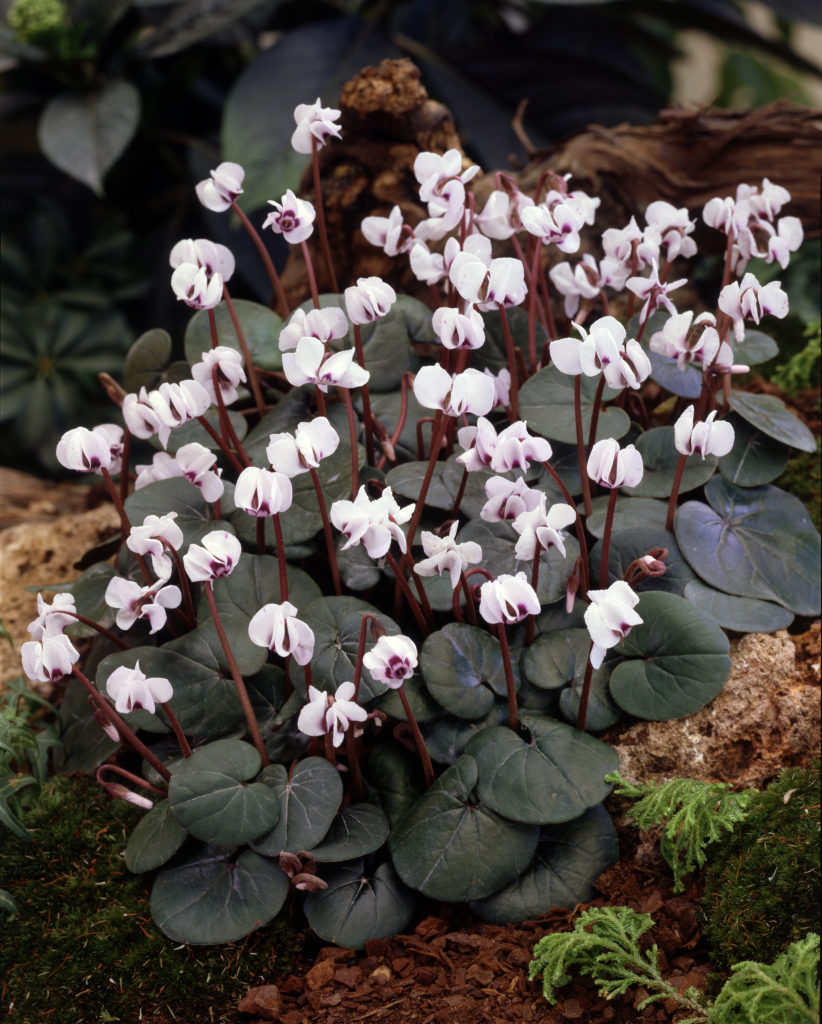 flower